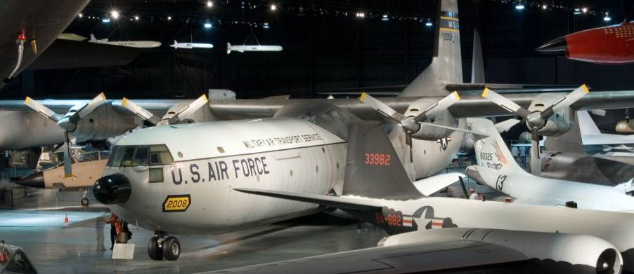 C-133 Cargomaster at the National Museum of the United States Air Force